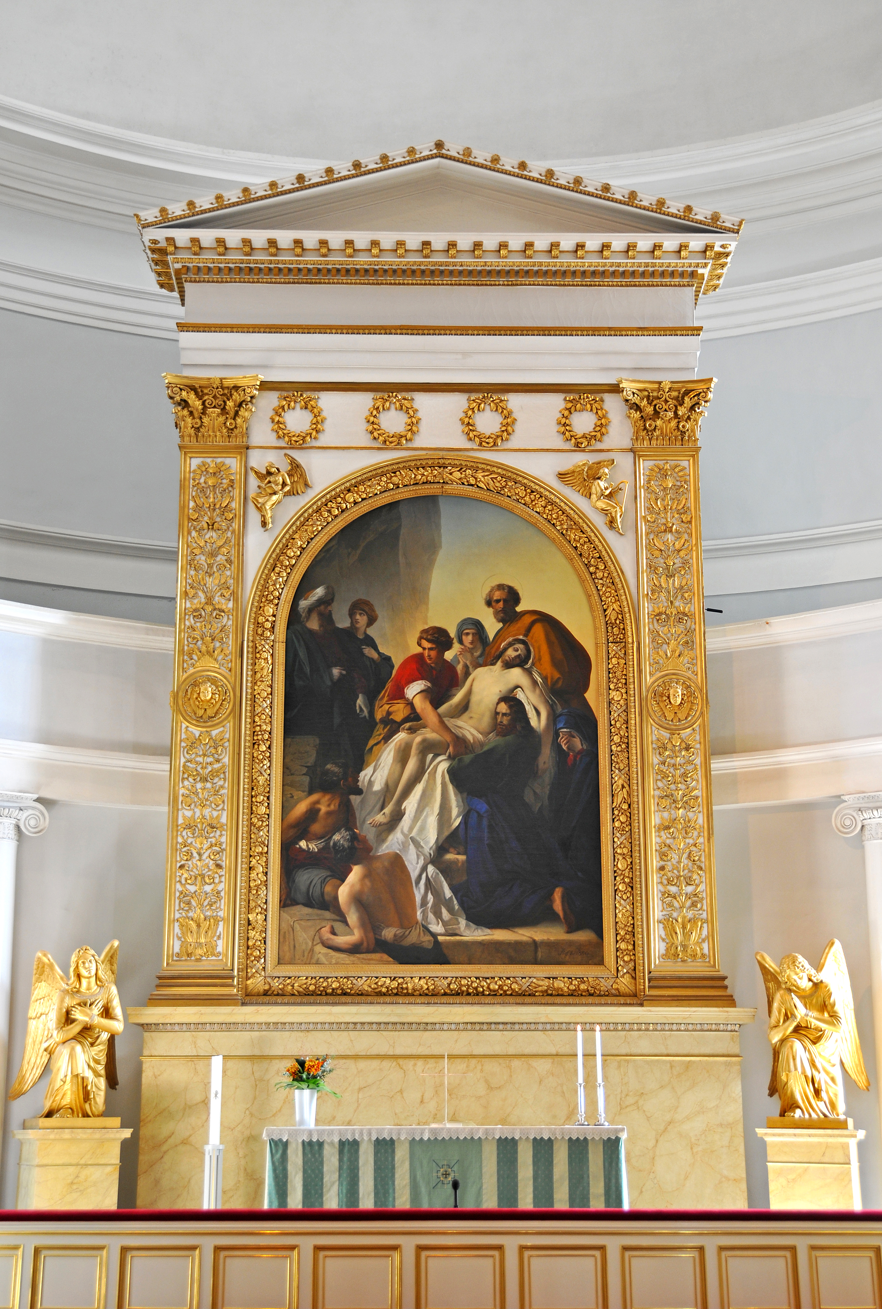 PLEASE, no multi invitations in your comments. Thanks. I AM POSTING MANY DO NOT FEEL YOU HAVE TO COMMENT ON ALL - JUST ENJOY. I think all the great places wait until I am going to visit and then they start re-construction.... Tuomiokirkko Helsinki Cathedral is an Evangelical Lutheran cathedral of the Diocese of Helsinki, located in the centre of Helsinki, Finland. The church was originally built as a tribute to the Grand Duke, Nicholas I, the Tsar of Russia and until the independence of Finland in 1917, it was called St. Nicholas' Church. After a fire destroyed most of Helsinki during Russian rule, the new city square was inaugurated as part of the 19th-century reconstruction. The Tuomiokirkko was built to replace a smaller 1727 church but when the designer Engel died in 1840 and work was taken over by Ernst Lohrmann who added the zinc statues of the twelve apostles on the roof, a bell tower, and a side chapel to Engel's design. The church was completed in 1852 and took 22 years to complete. Statue of Tsar Alexander II (1894) is on the left side. The inside of the Cathedral is plan as are most Lutheran churches and has a seating capacity of 1,300.